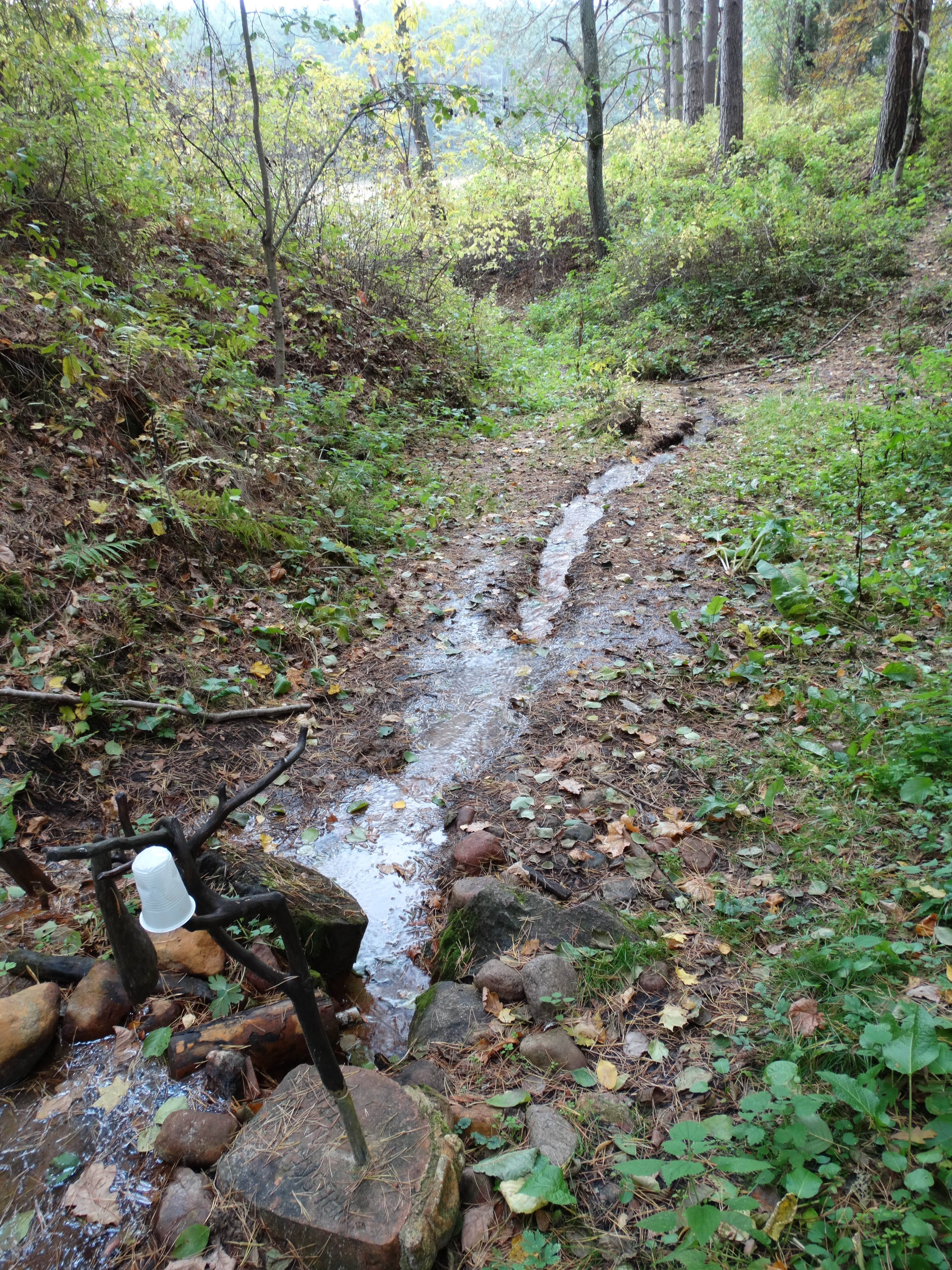 Druskelė Spring, Balkasodis, Alytus district, Lithuania